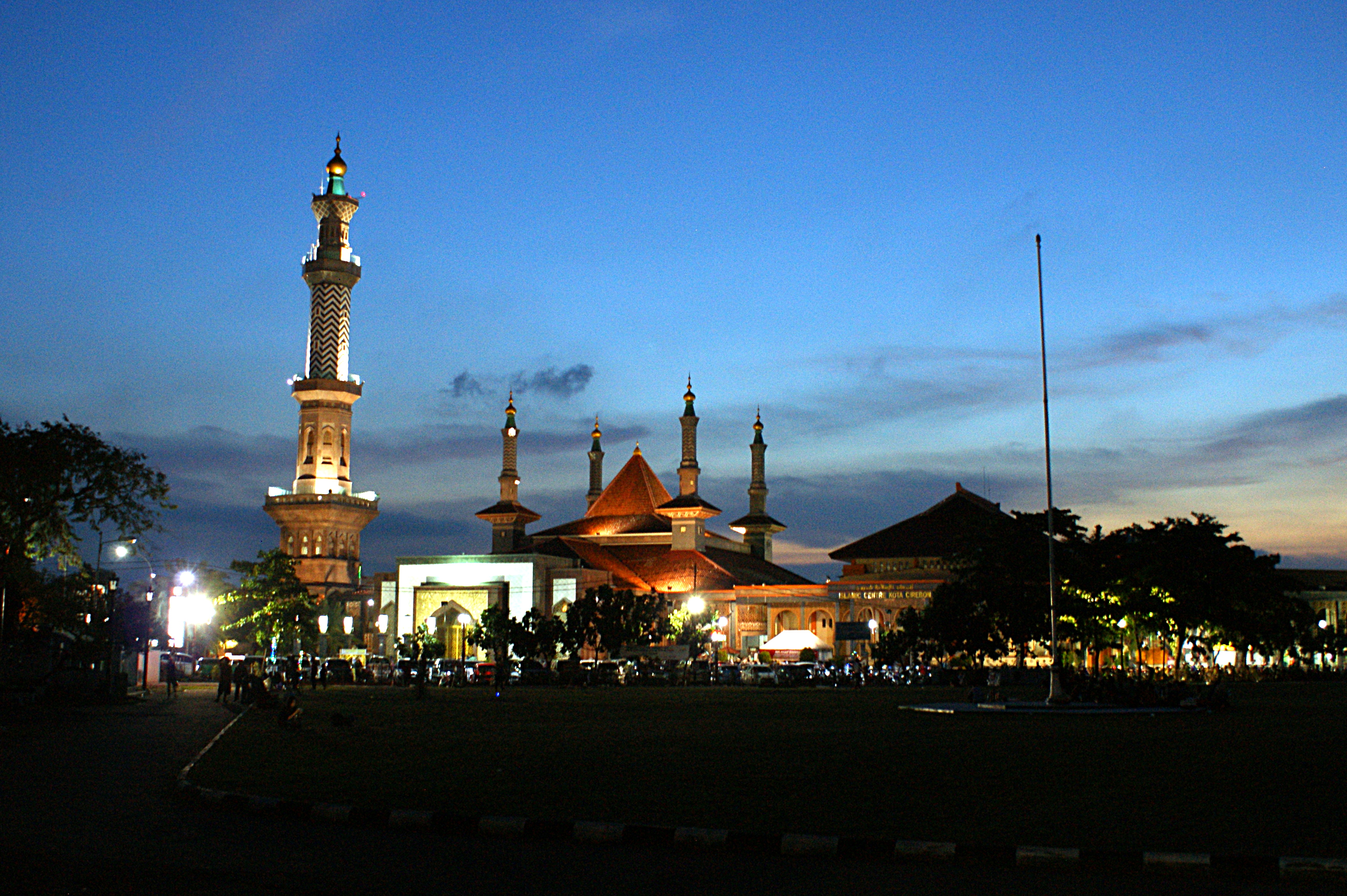 central mosque of cirebon